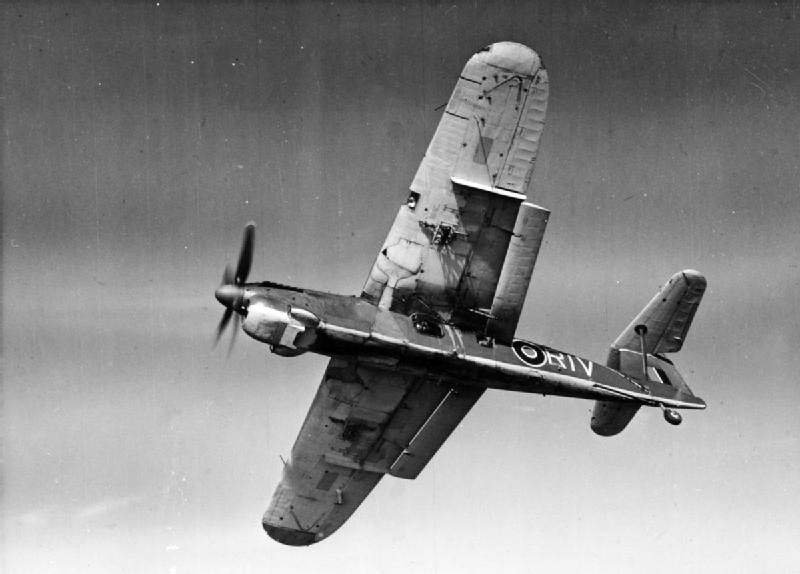 A Royal Navy Fairey Barracuda II aircraft of 814 Squadron, Fleet Air Arm peeling off', showing clearly the observer's blister, the distinctive dive brakes, the high tail plane, and (below the blister) one of the lugs in which the accelerator / catapult engages. Photograph taken from the aircraft carrier HMS Venerable (R63).